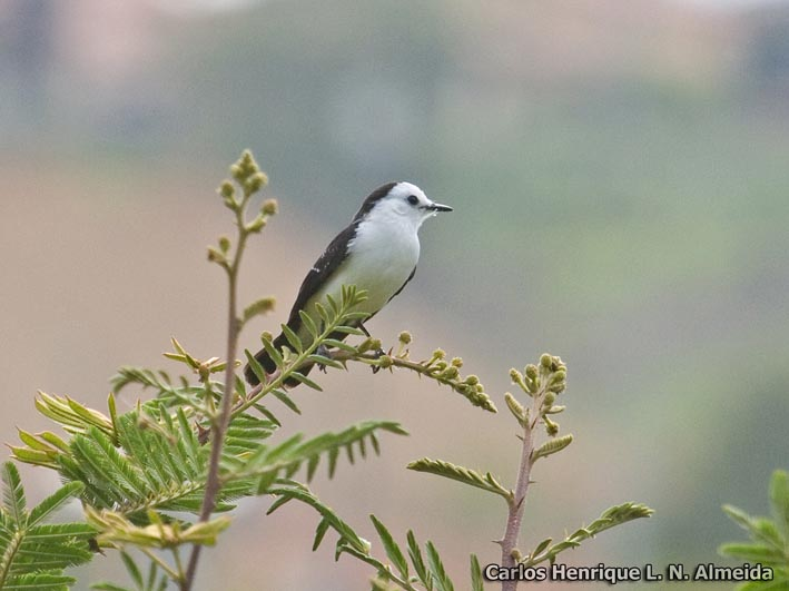 Fluvicola albiventer at Monte Mor, São Paulo, Brazil